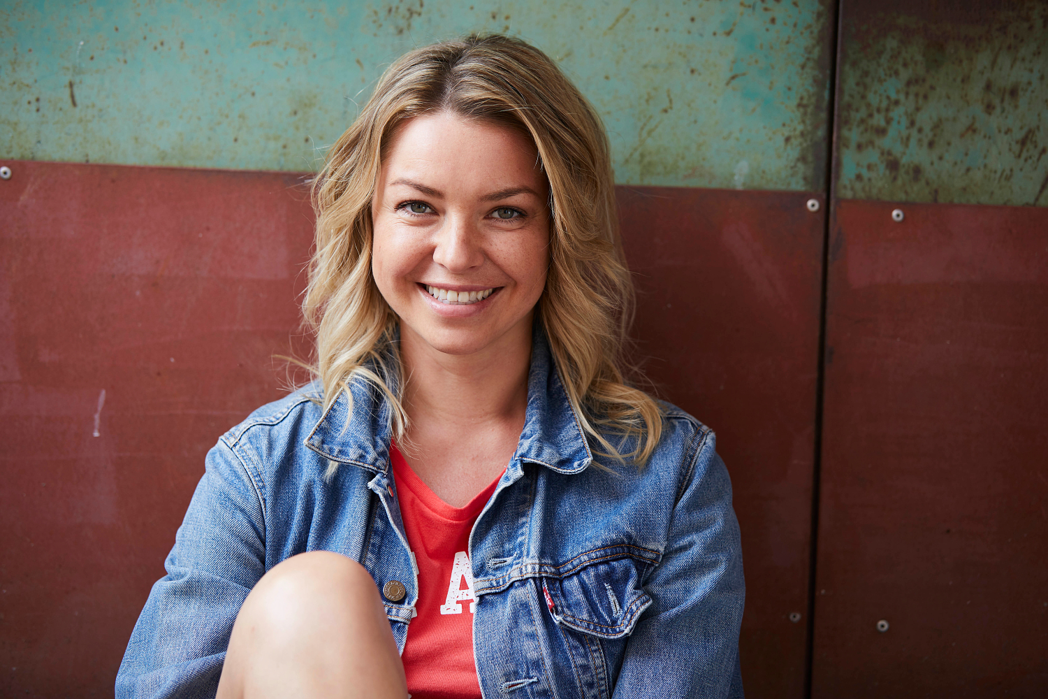 German Actress